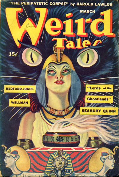 Cover of the pulp magazine Weird Tales (March 1945, vol. 38, no. 4) featuring Lords of the Ghostlands by Seabury Quinn. Cover art by A. R. Tilburne.